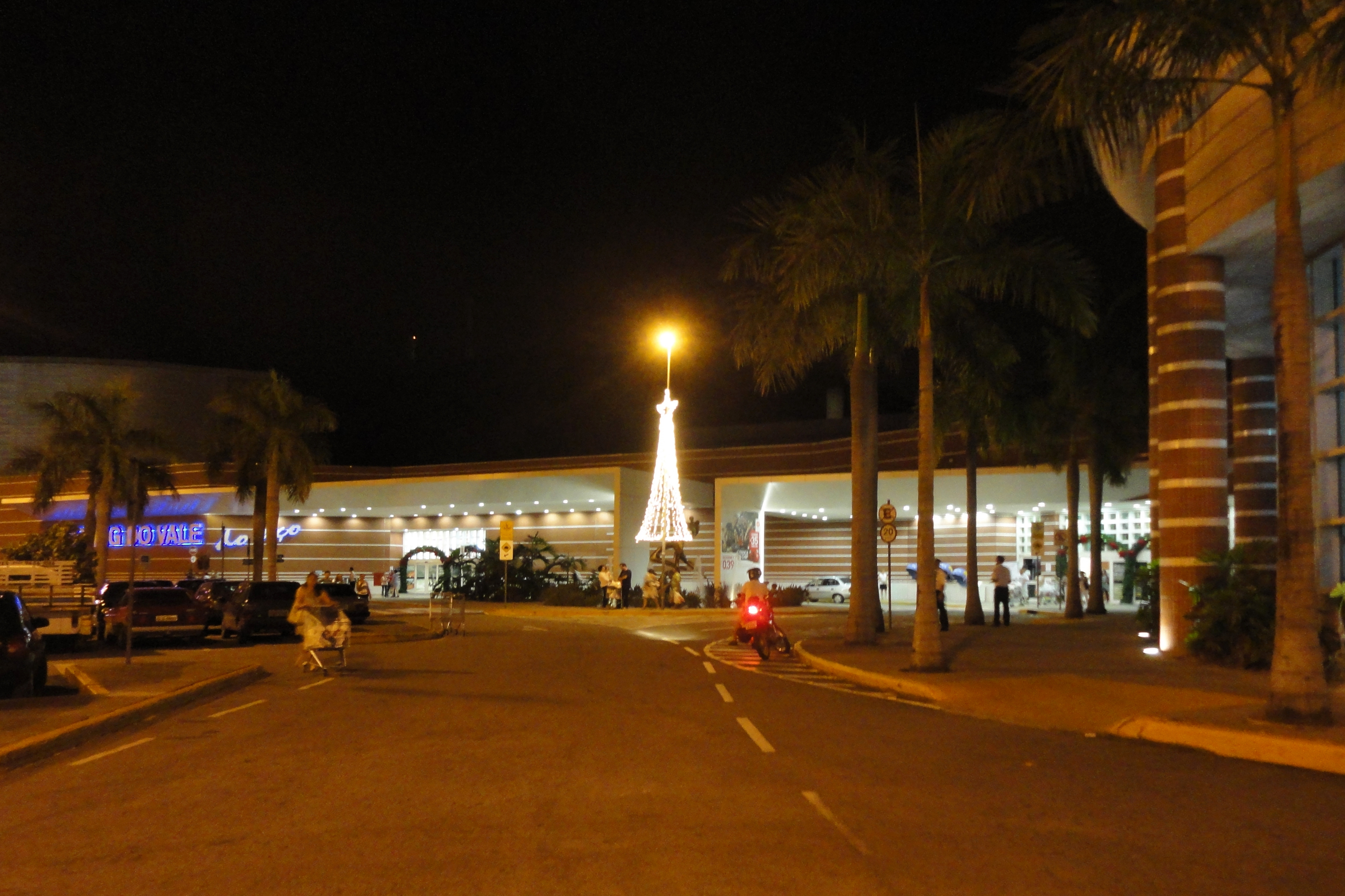 Nocturn view of the Shopping Vale do Aço, in Ipatinga, Minas Gerais, Brazil.